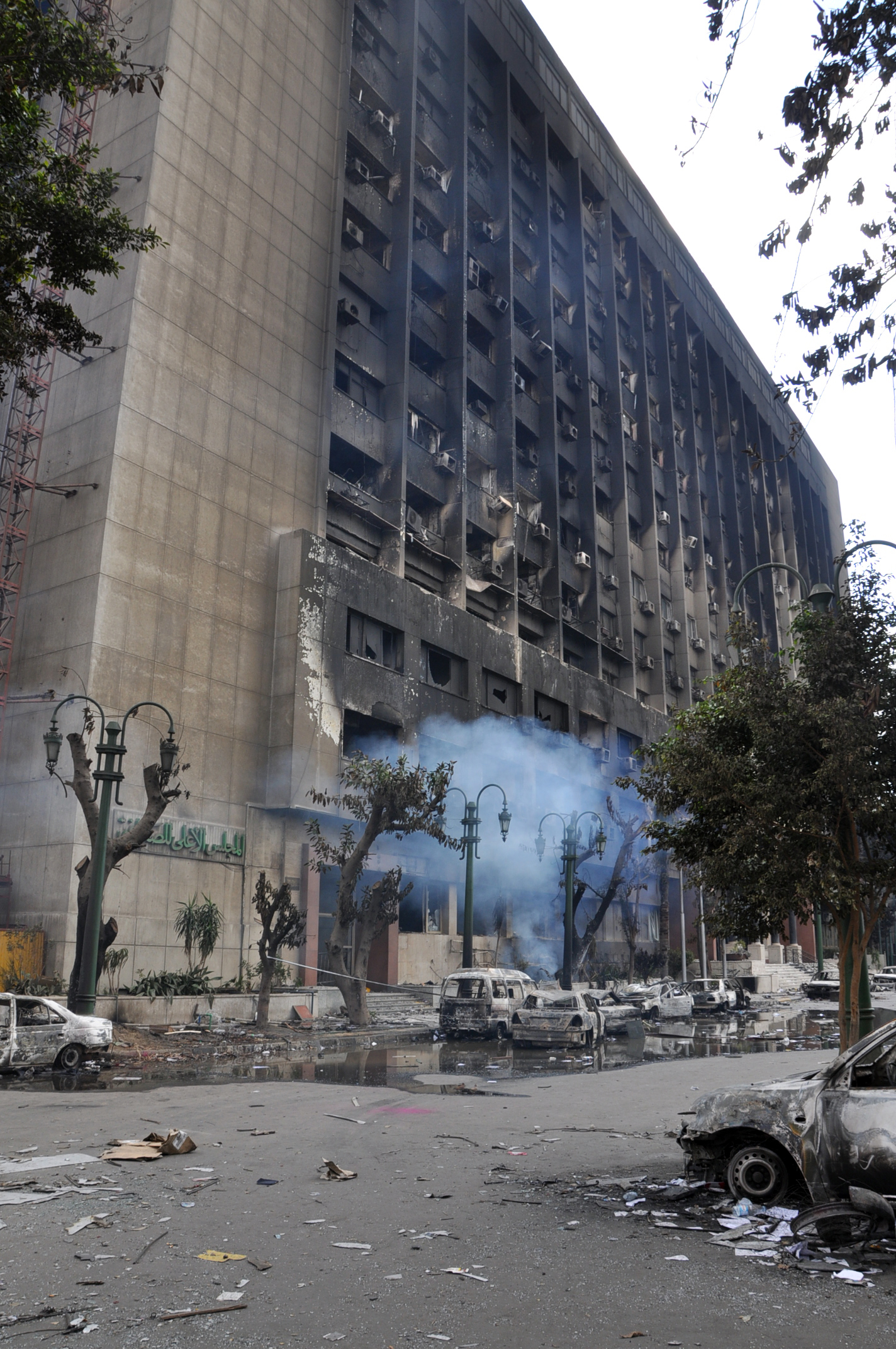 Burned out National Democratic Party-NDP headquarters building, 30 January 2011, off Tahrir Square and next to the Egyptian Museum, Downtown Cairo